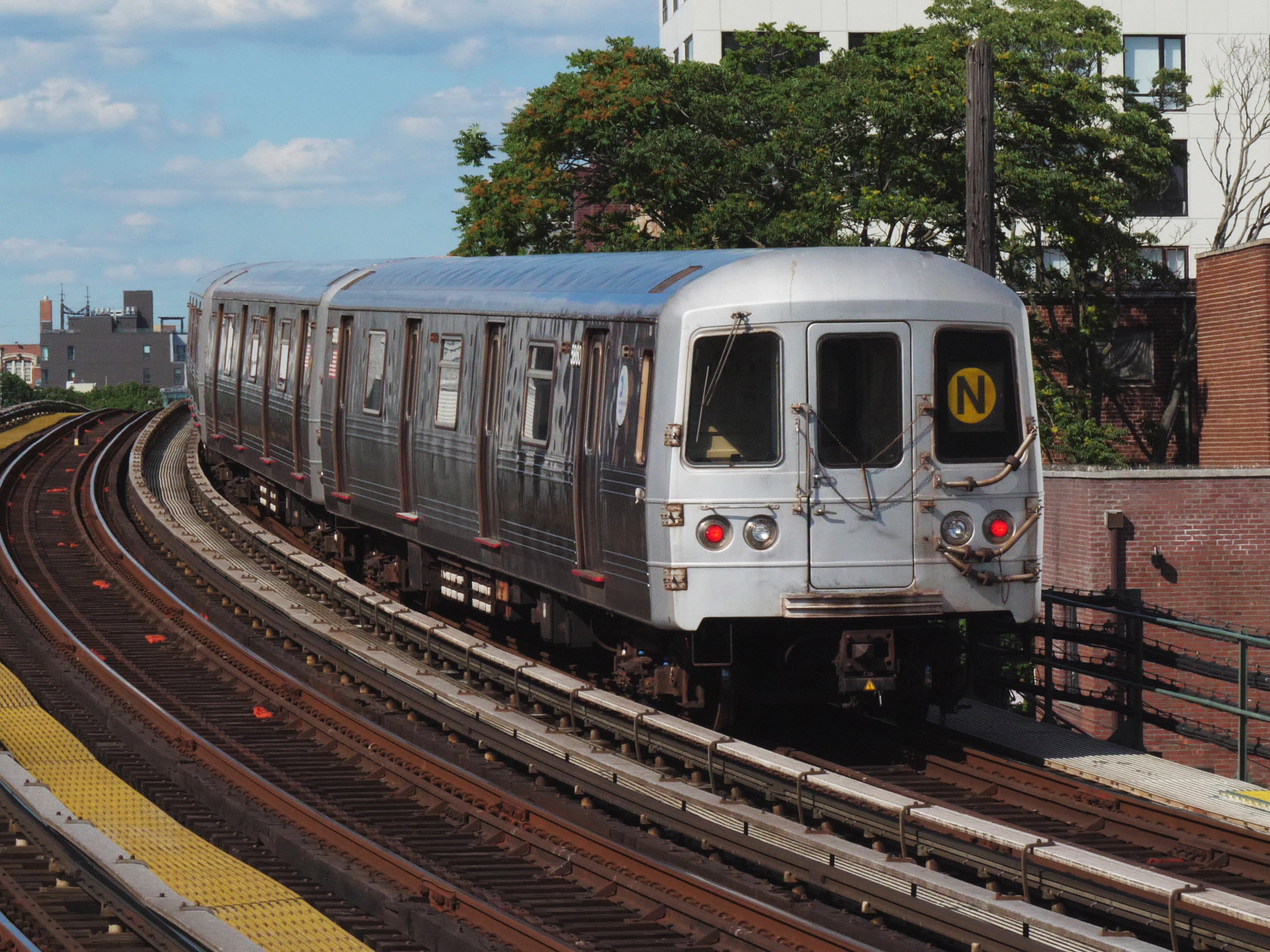 A northbound R46 N train on the curve just past 30th Avenue in Queens, BMT Astoria Line.